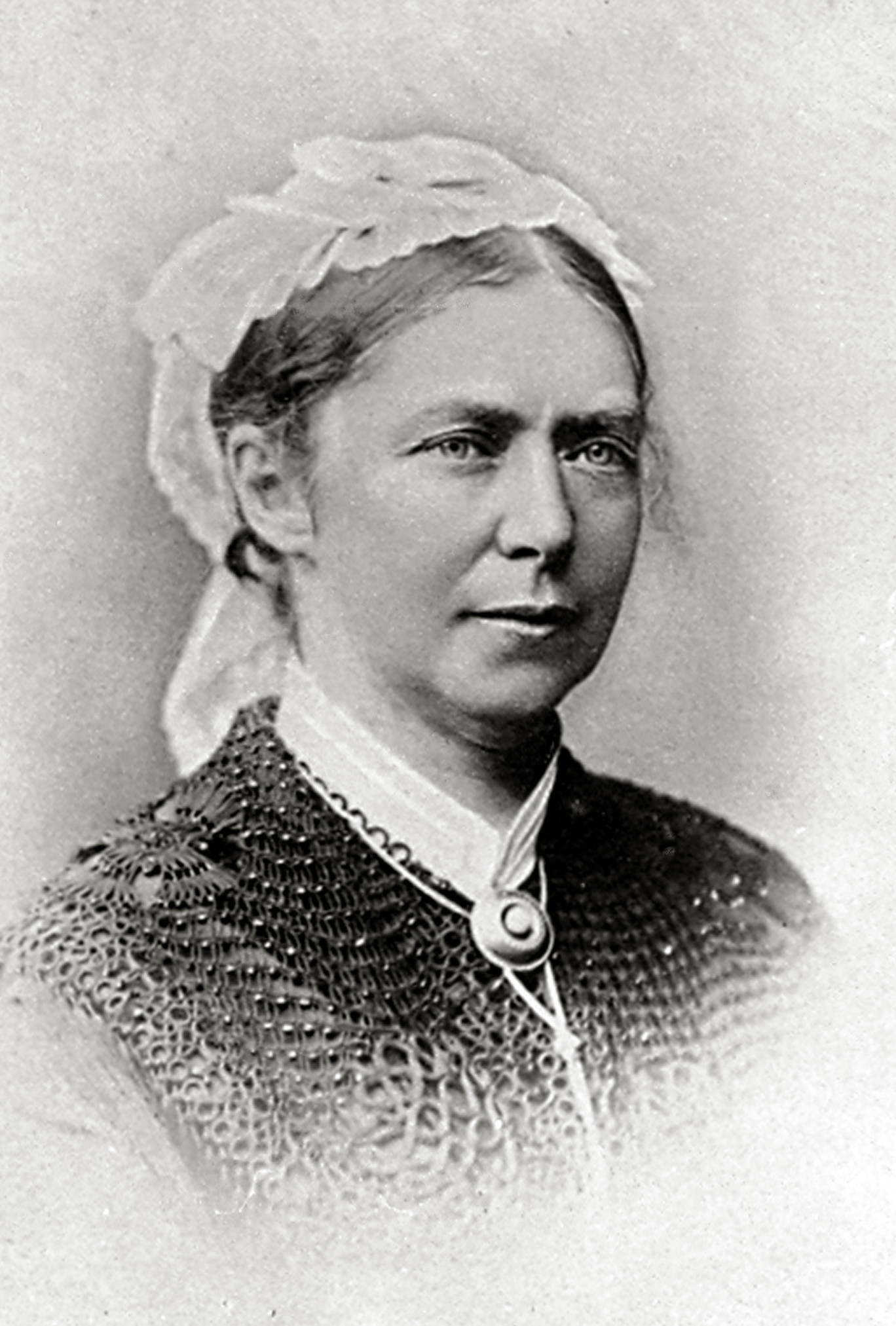 Elisabeth Petre, née Waern (1835-1898), wife of Swedish industrialist and member of the upper house of the parliament of Sweden, Casimir Petre (1831-1889)